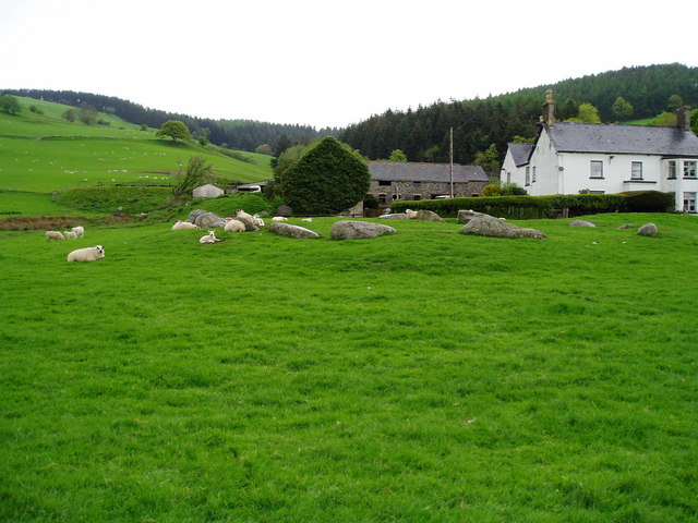 Tyfos stone circle. A stone circle at Tyfos, half way between Cynwyd and Llandrillo. The circle is about 50yds diameter with stones 1 to 2 feet tall. It's slightly raised above a one track metalled road running parallel to the river Dee, about 10yds from the road.